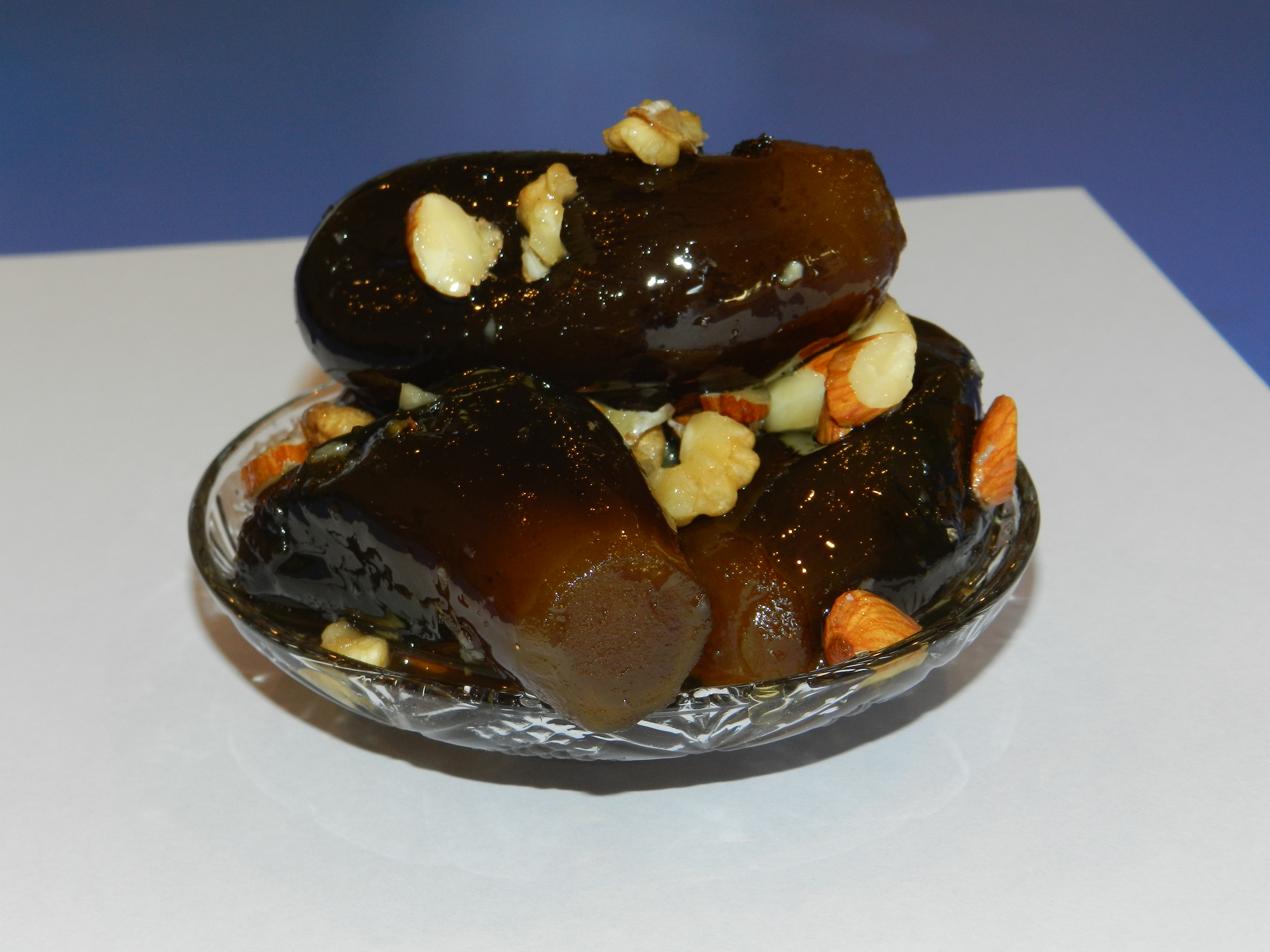 Jam: Eggplant with nuts